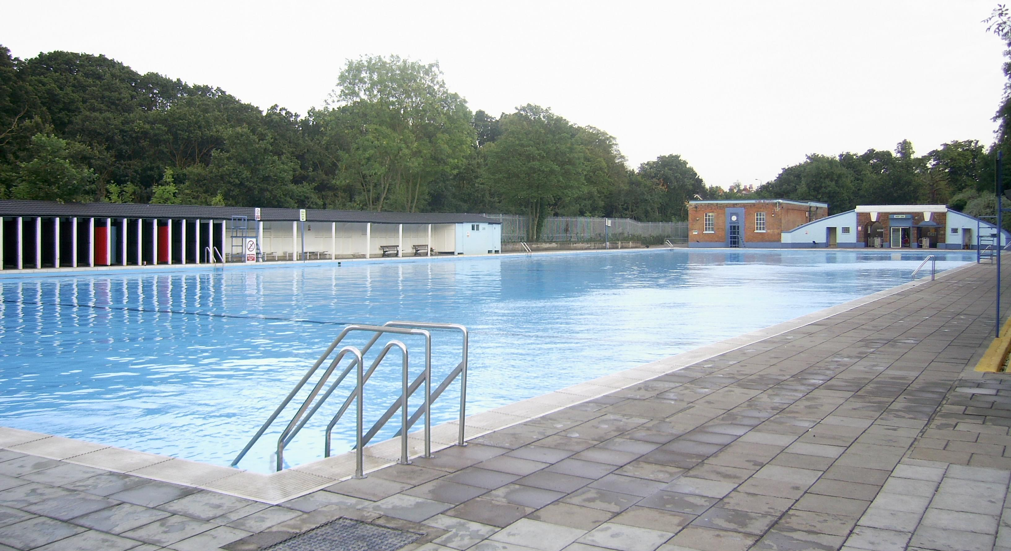 Tooting Bec Lido, taken by Nick Cooper 24 July 2008